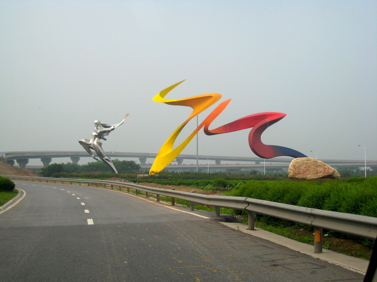 Various figures can be seen along the highway to and from the airport.